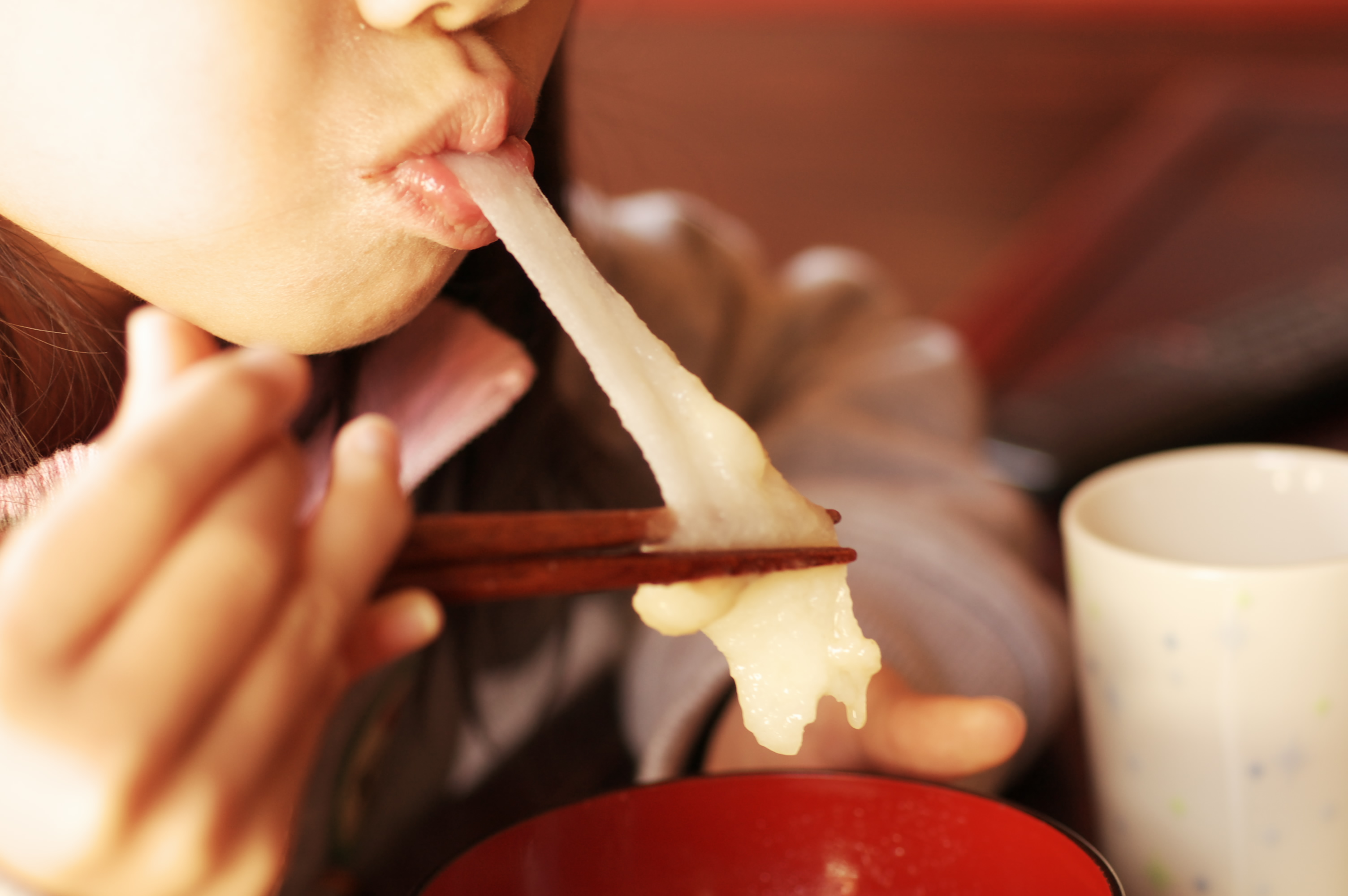 Eating rice cake (mochi) in Zoni